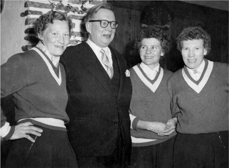 Photograph of the Finnish skiers Siiri Rantanen, Mirja Hietamies and Eva Hög with the Finnish ambassador Asko Ivalo at Cortina.